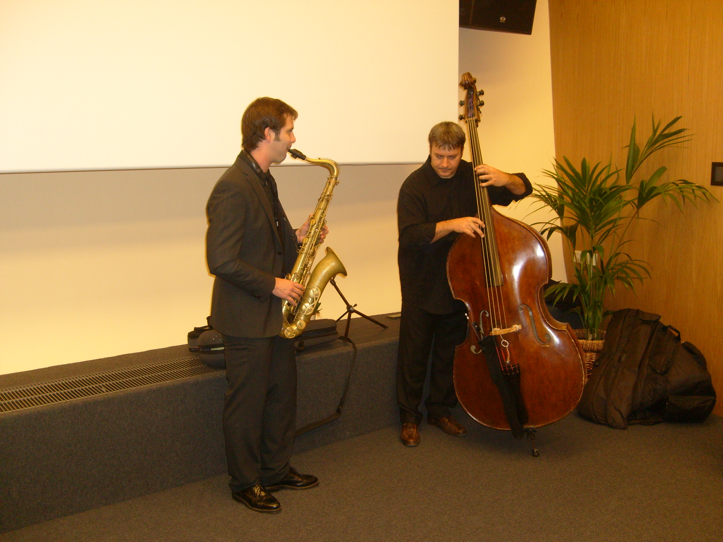 Luxembourg jazzmusicians Maxime Bender (saxophone) and Laurent Payfert (double bass) at conference centre of the city of Luxembourg (3, rue Genistre).